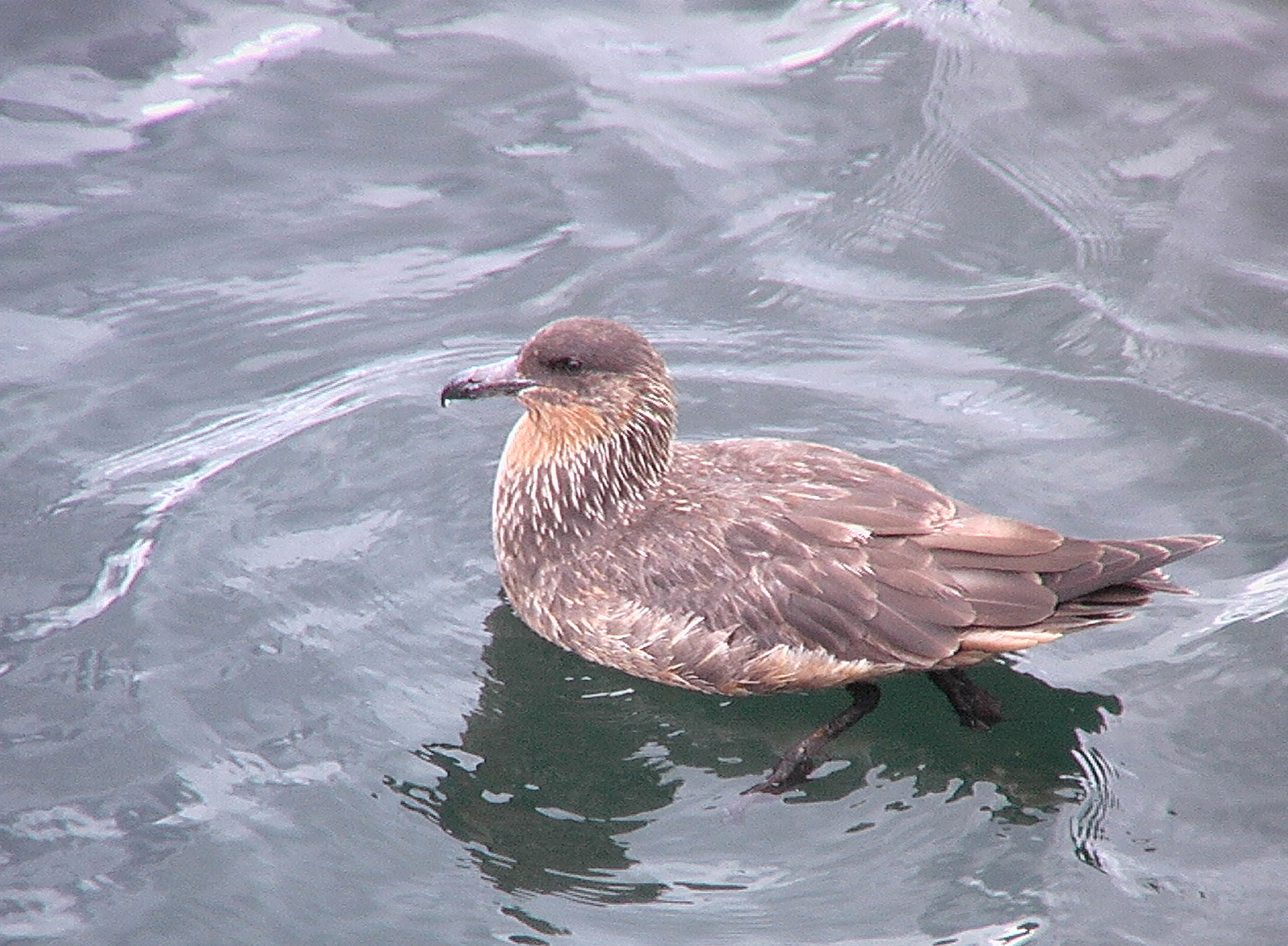 Chilean Skua (Catharacta chilensis) near Ushuaia, Argentina. Photographed on 6 January 2004